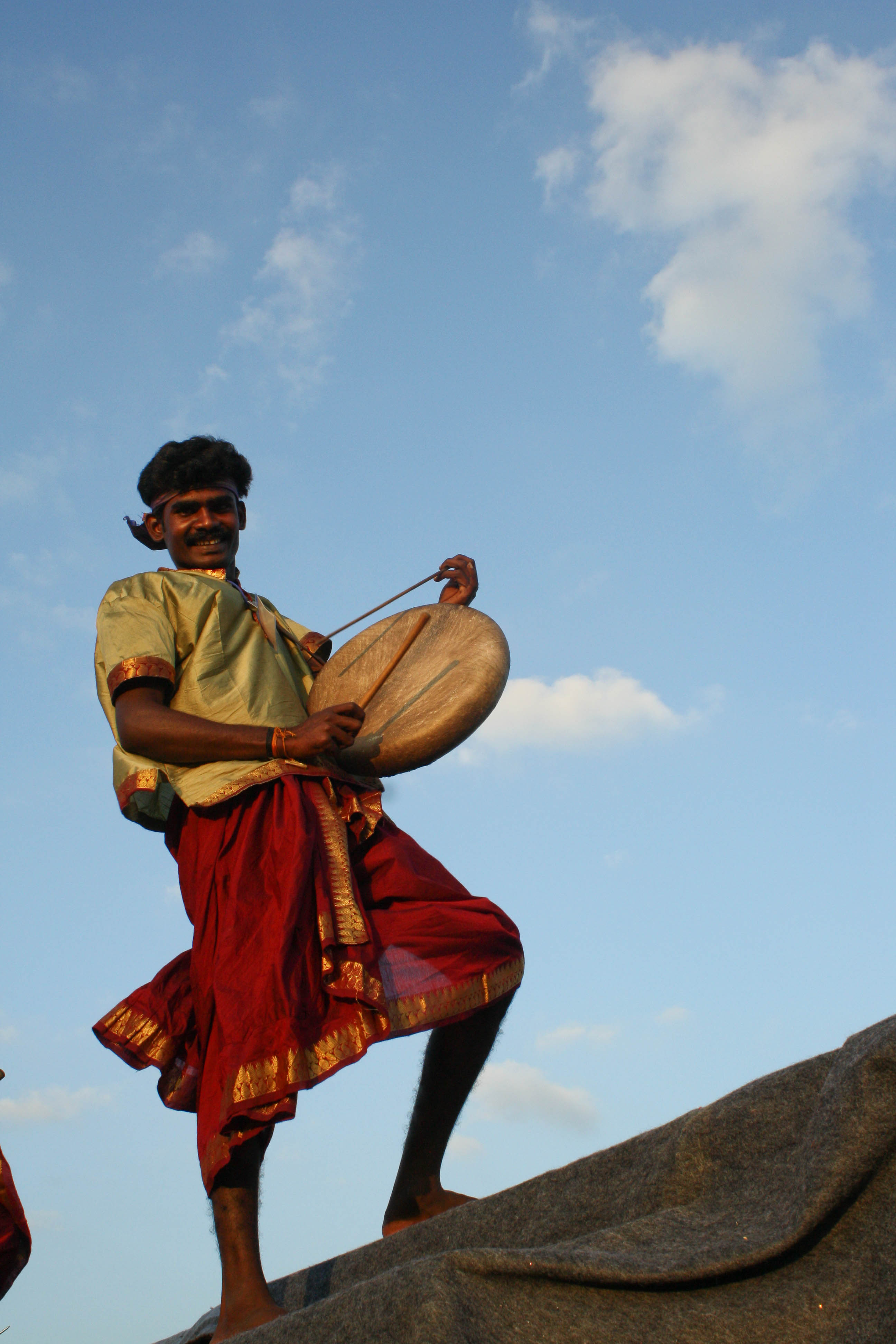 A traditional parai atttam performer